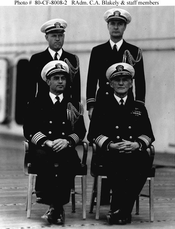 Vice Admiral Charles A. Blakely, USN, Commander, Aircraft, Battle Force (ComAirBatFor) With Flag Aides on board his flagship, USS Yorktown (CV-5), 29 March 1940. VAdm. Blakely is seated (at right), with Captain John H. Hoover, USN, Chief of Staff. Standing behind them are Lieutenant Commander Albert N. Perkins, USN, Flag Secretary (left) and Lieutenant Richard K. Gaines, USN, Flag Lieutenant.